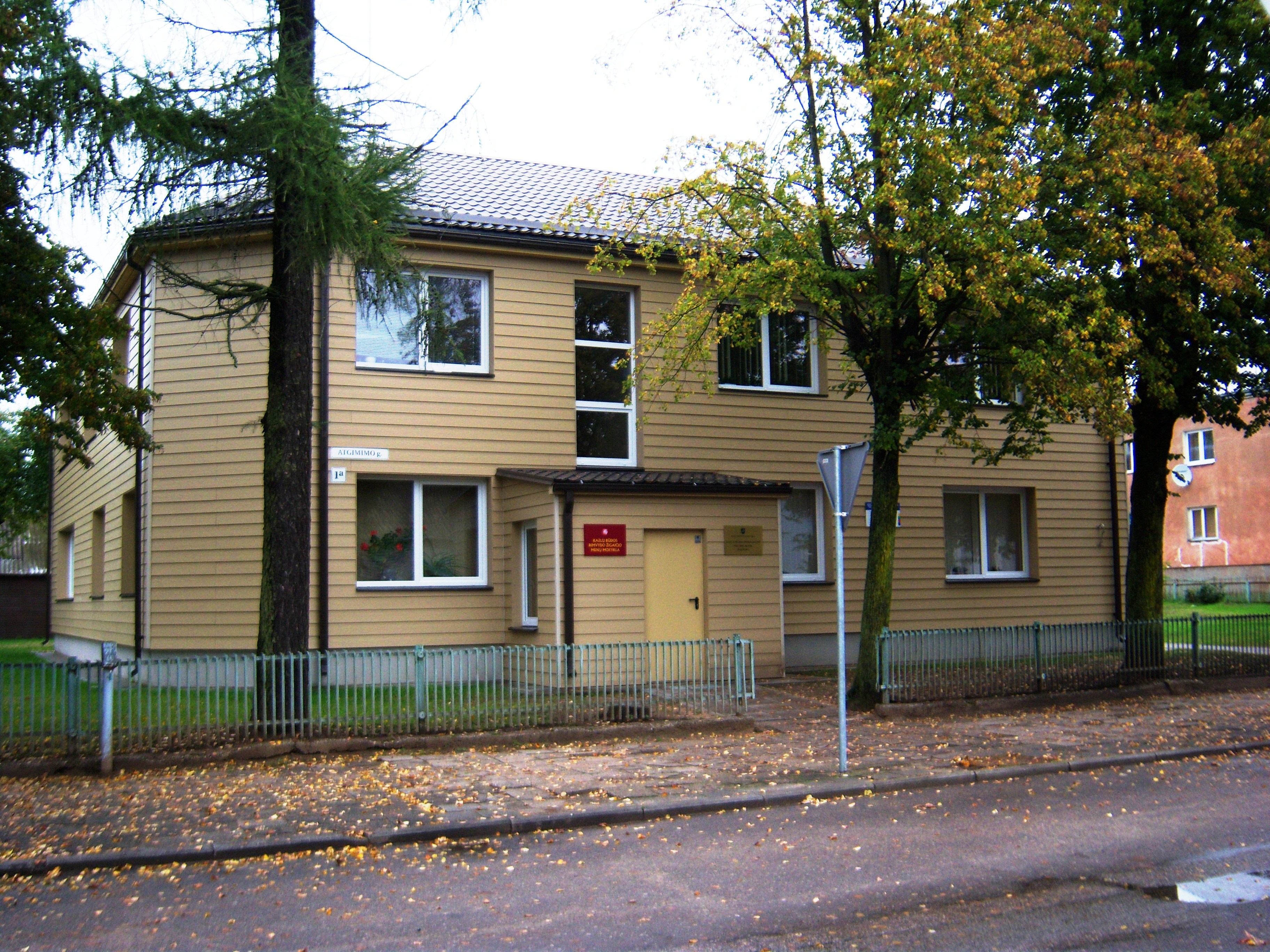 Kazlų Rūda arts school, Lithuania